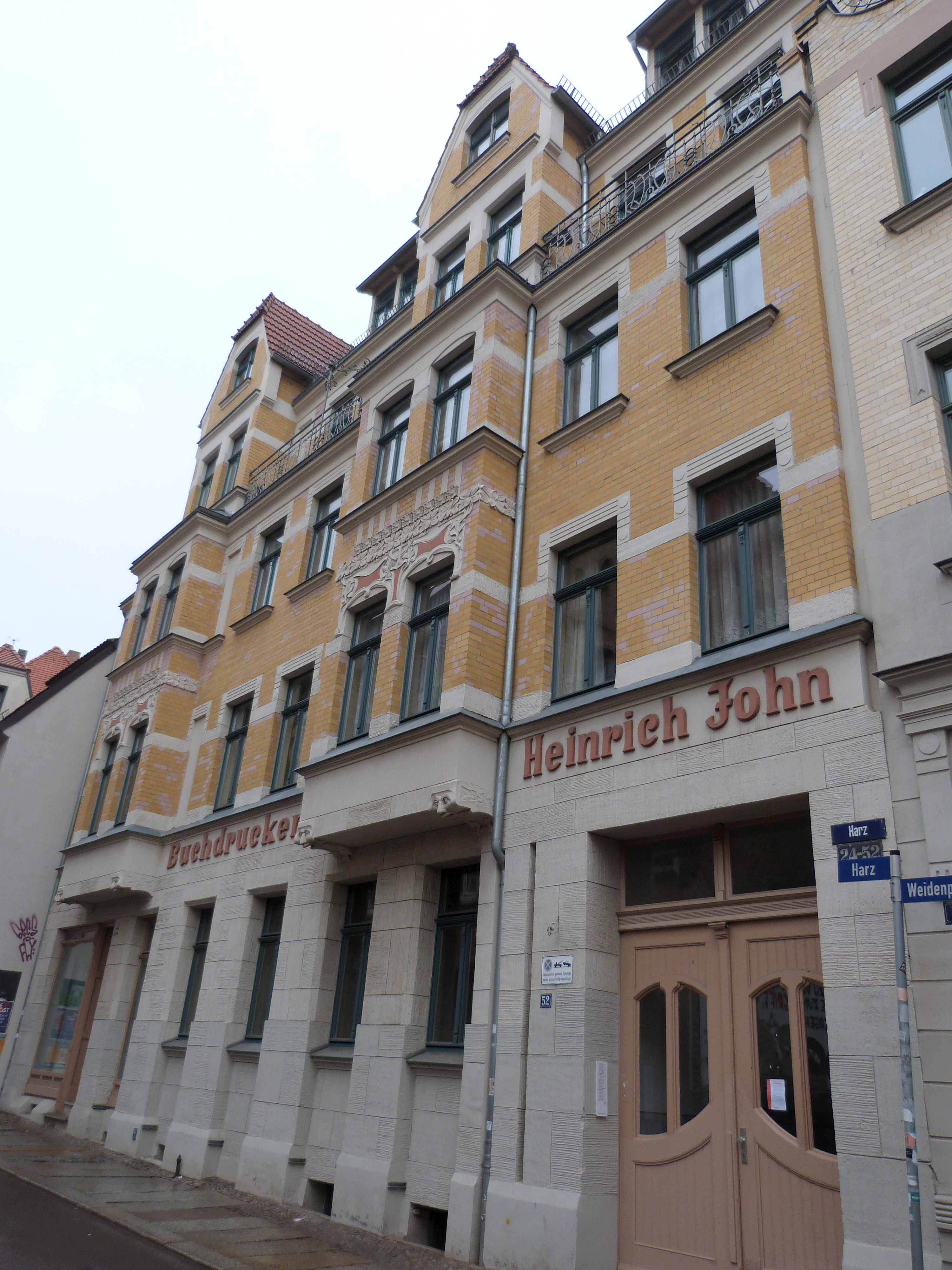 House No. 52, Harz, Halle (Saale)